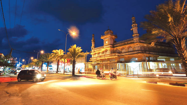 The bazaar strip along the road, in one of South Asia’s most densely populated townships, Kattankudy in Baticalao is a bright hive of activity at night.